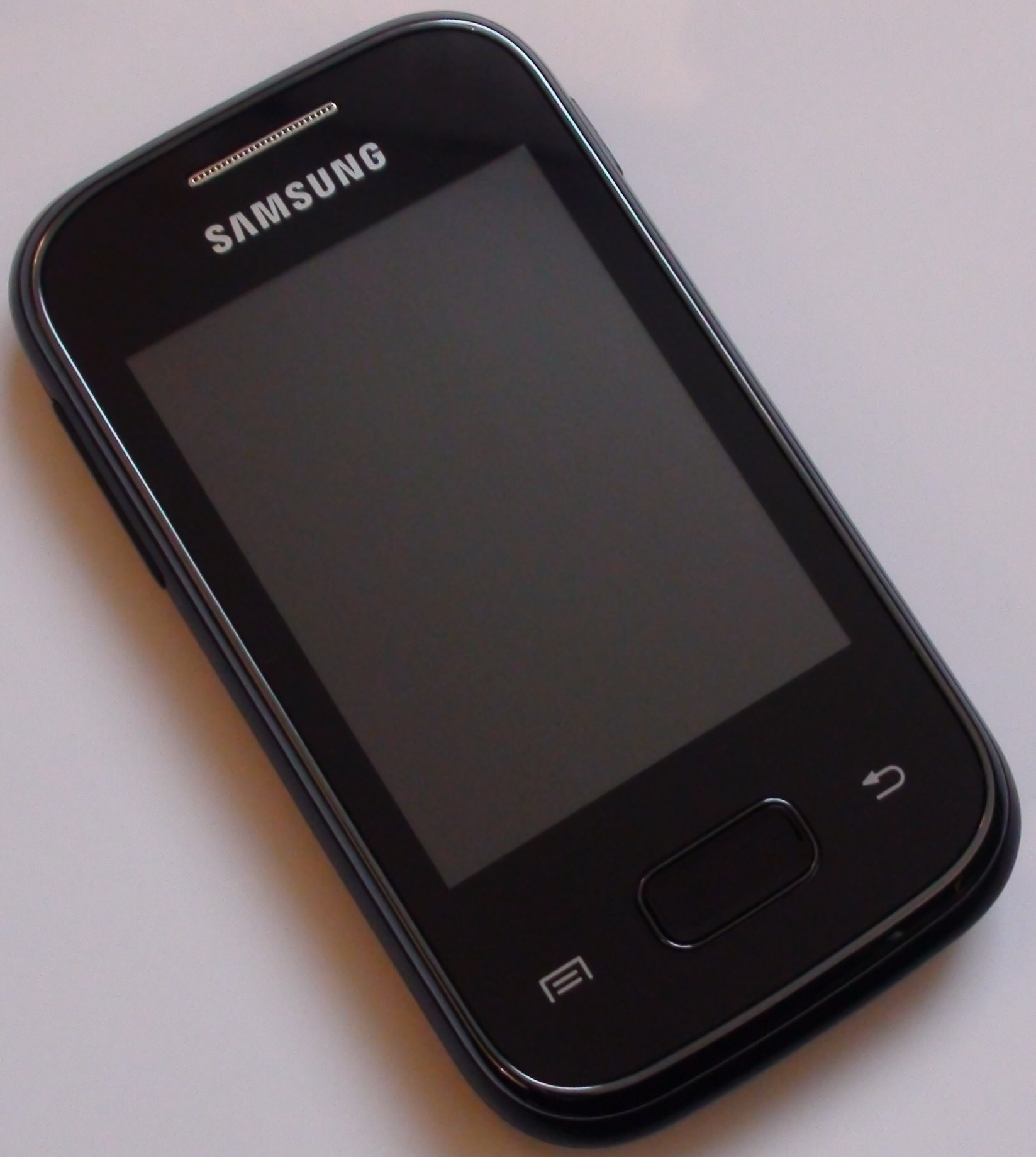 Photo of Samsung Galaxy Pocket GT-S5300